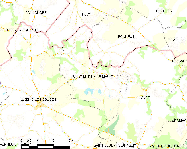 Map of French municipality Saint-Martin-le-Mault